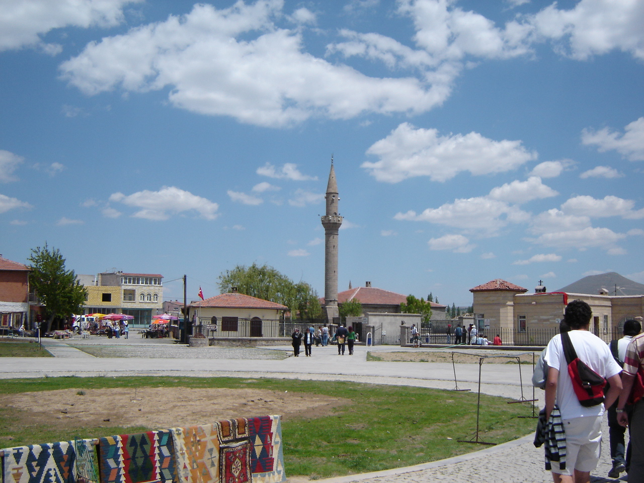 Underground City Derinkuyu Turkey